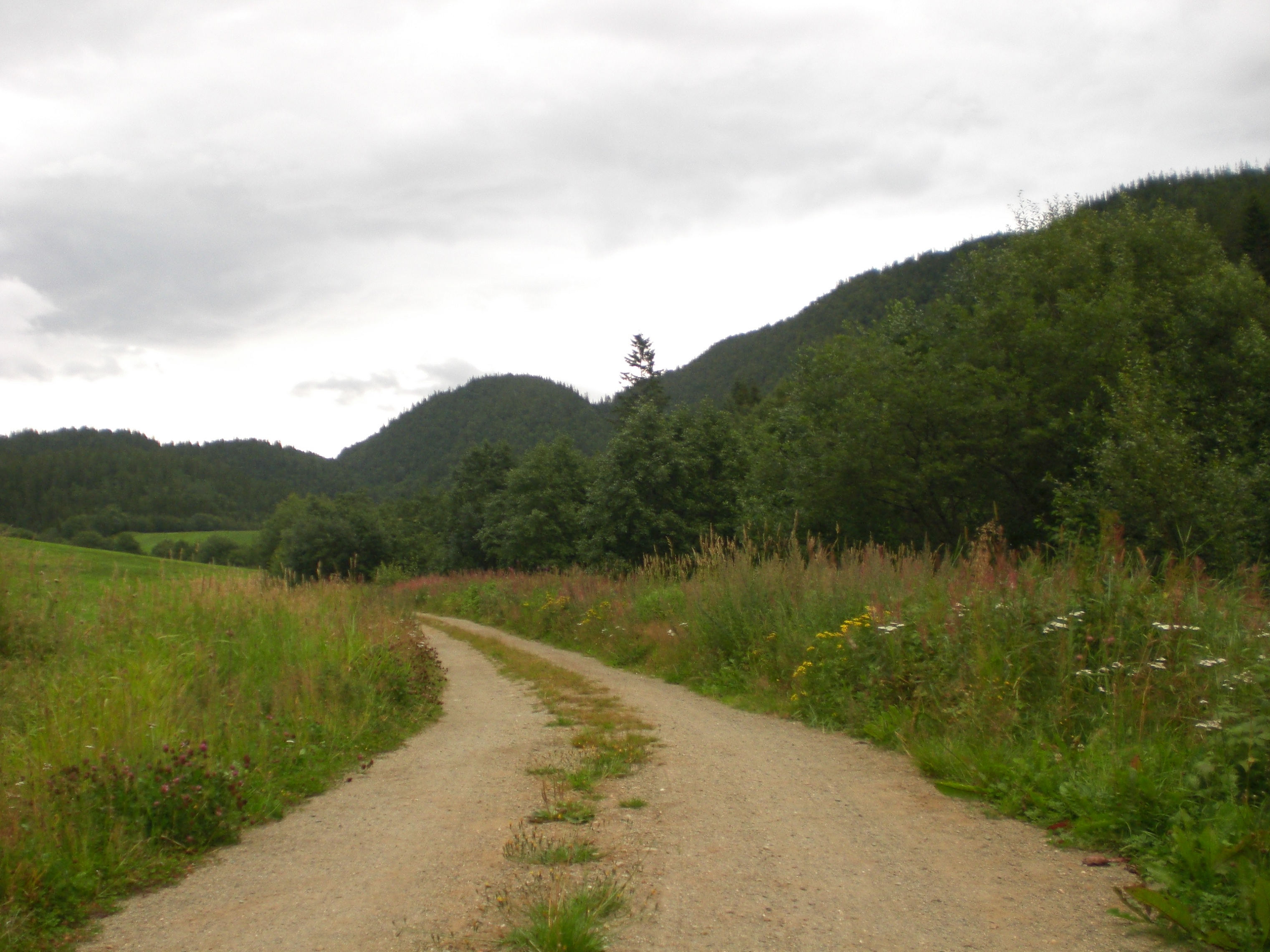 Bygdeskaret in the valley between Skaland and Søfting. Unknown year.